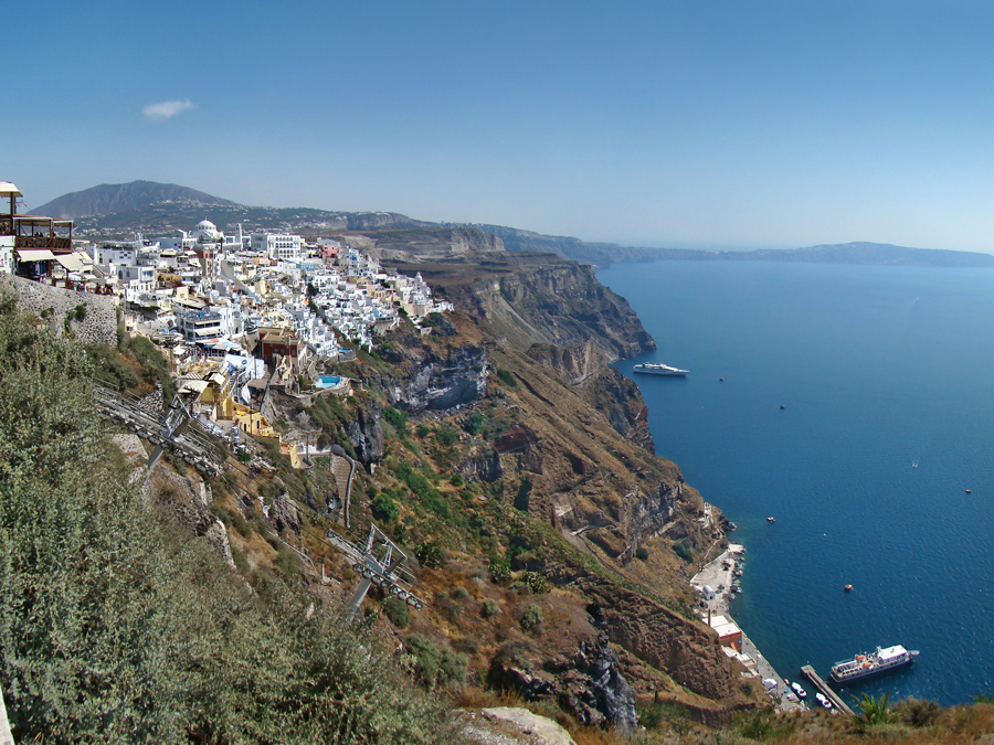 Fira, Santorini, Greece. The cable car system visible in the foreground, leads down to the port of Fira Skala.